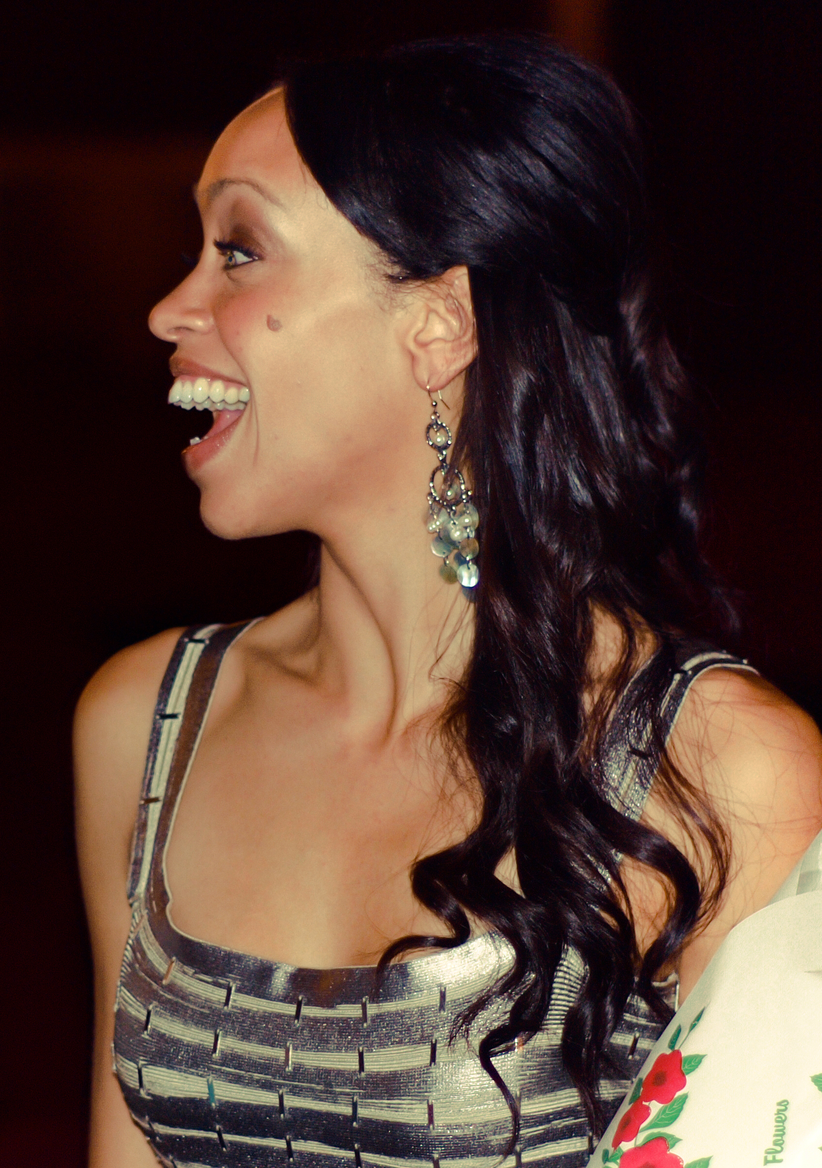 Shanti Lowry at the Apollo Theater in August 2010.